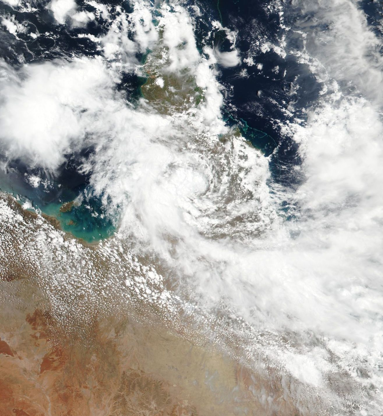 Owen over Queensland on 10 December 2018.